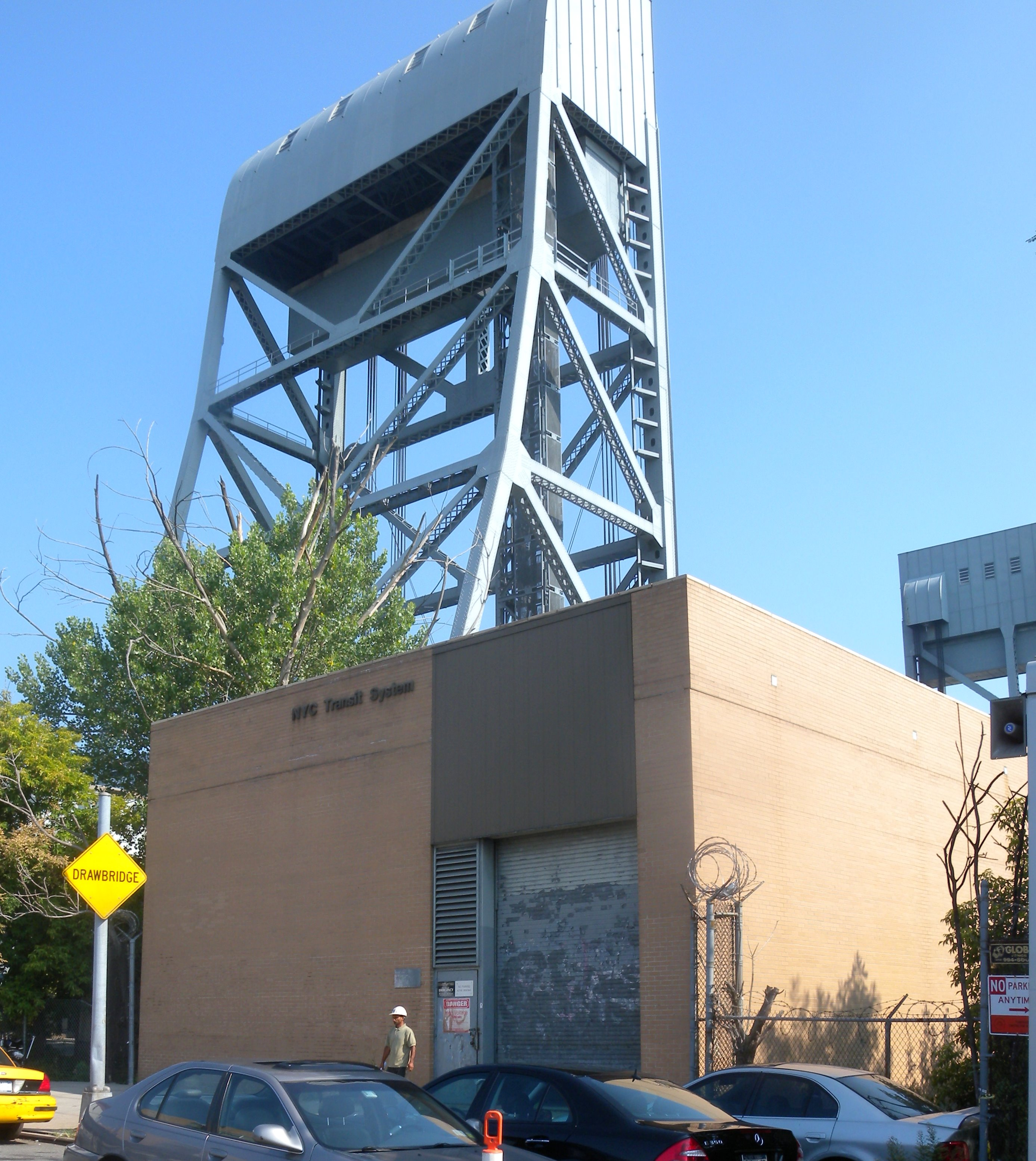 Looking north at Broadway Harlem River Substation on a sunny morning. ZIP 10034.